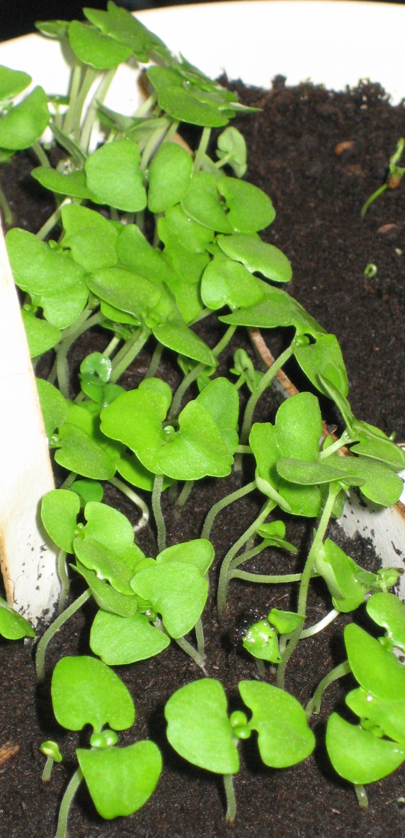 Basil (Basil, Bazylia pospolita), Ocimum basilicum, 12 days old. Author: Paweł Bura